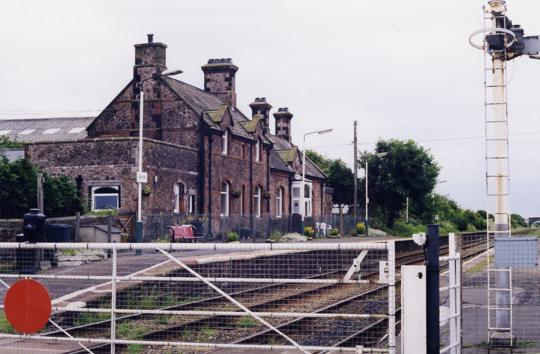 Bootle (Cumbria) station, 1998. View southward, towards Barrow-in-Furness etc.: ex-Furness Railway Carnforth - Barrow - Whitehaven (Cumbrian Coast) secondary main line